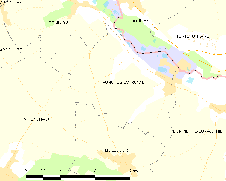 Map of French municipality Ponches-Estruval